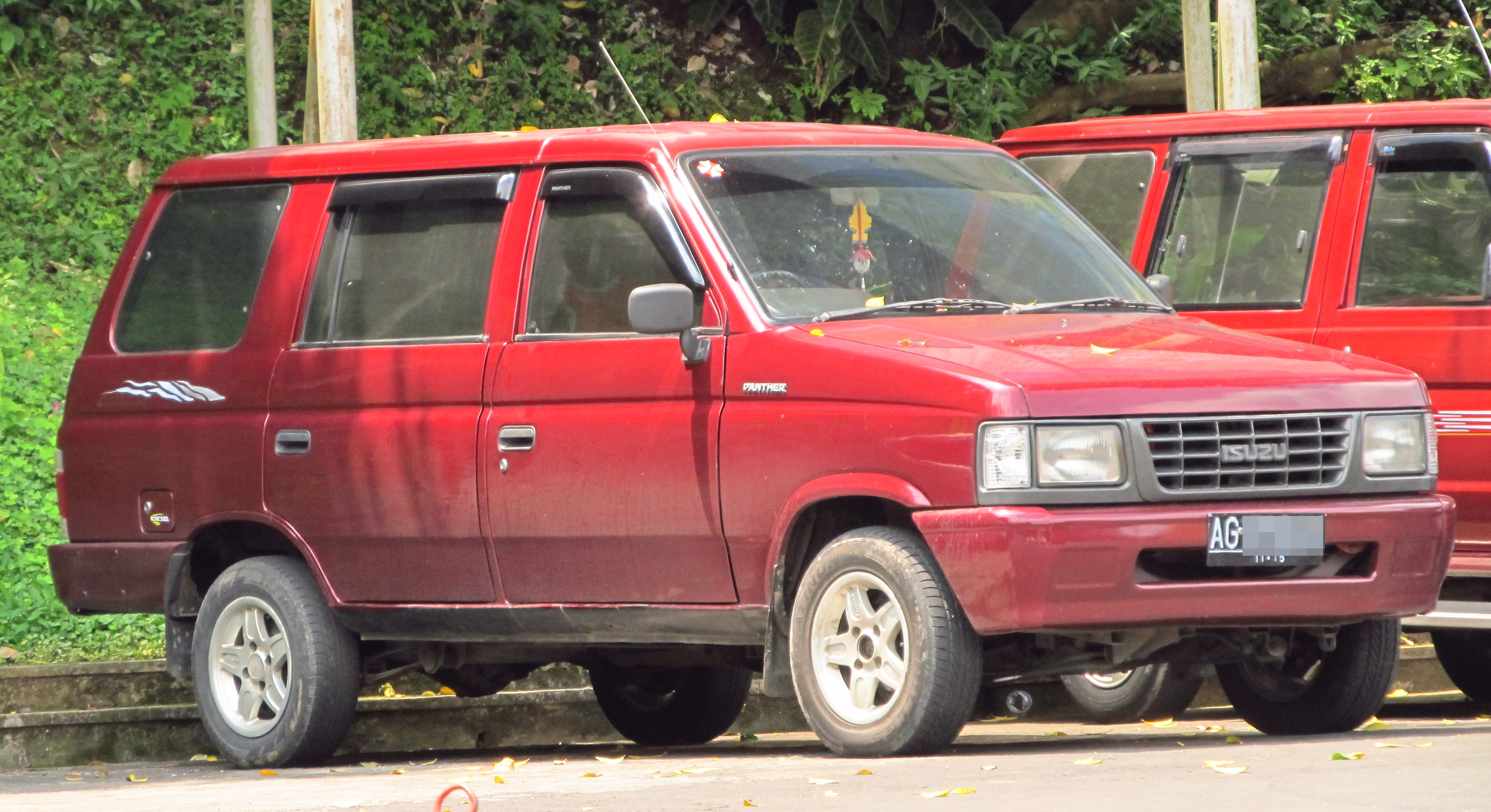 '97 Isuzu Panther photographed in Malang, East Java, Indonesia